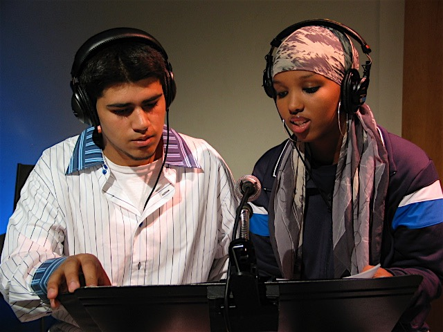 announcers